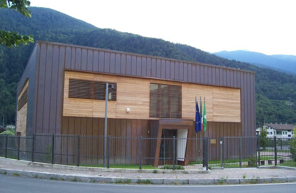 Università, Edolo, Val Camonica